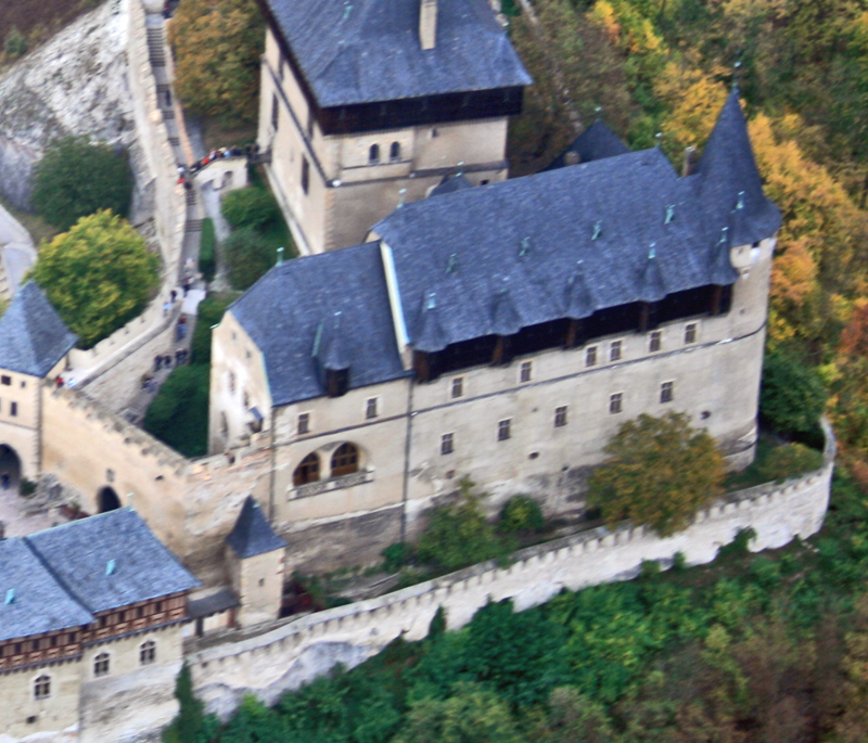 Air photo of Karlštejn Castle, middle Bohemia, Czech Republic